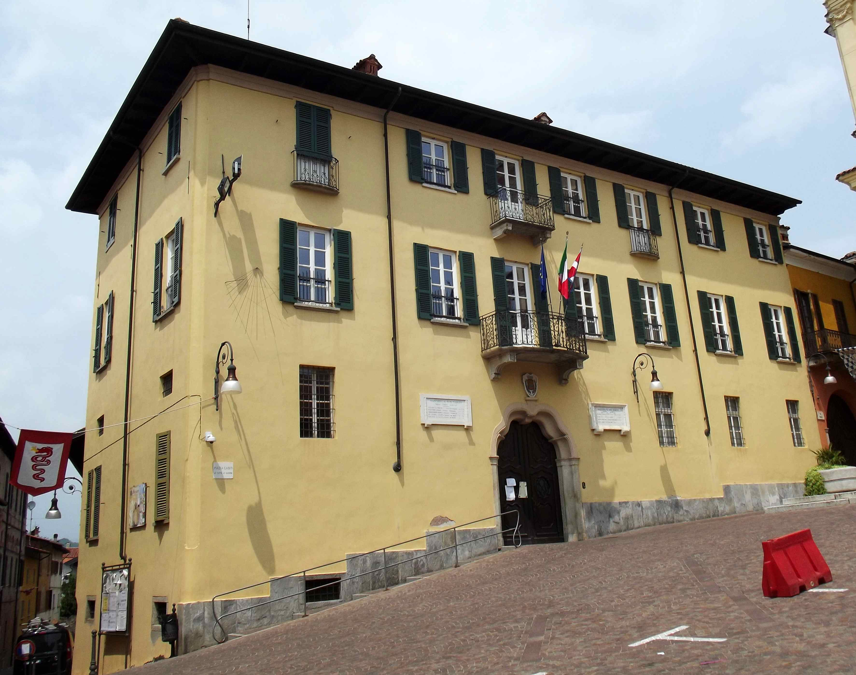 Maggiora (NO, Italy): town hall